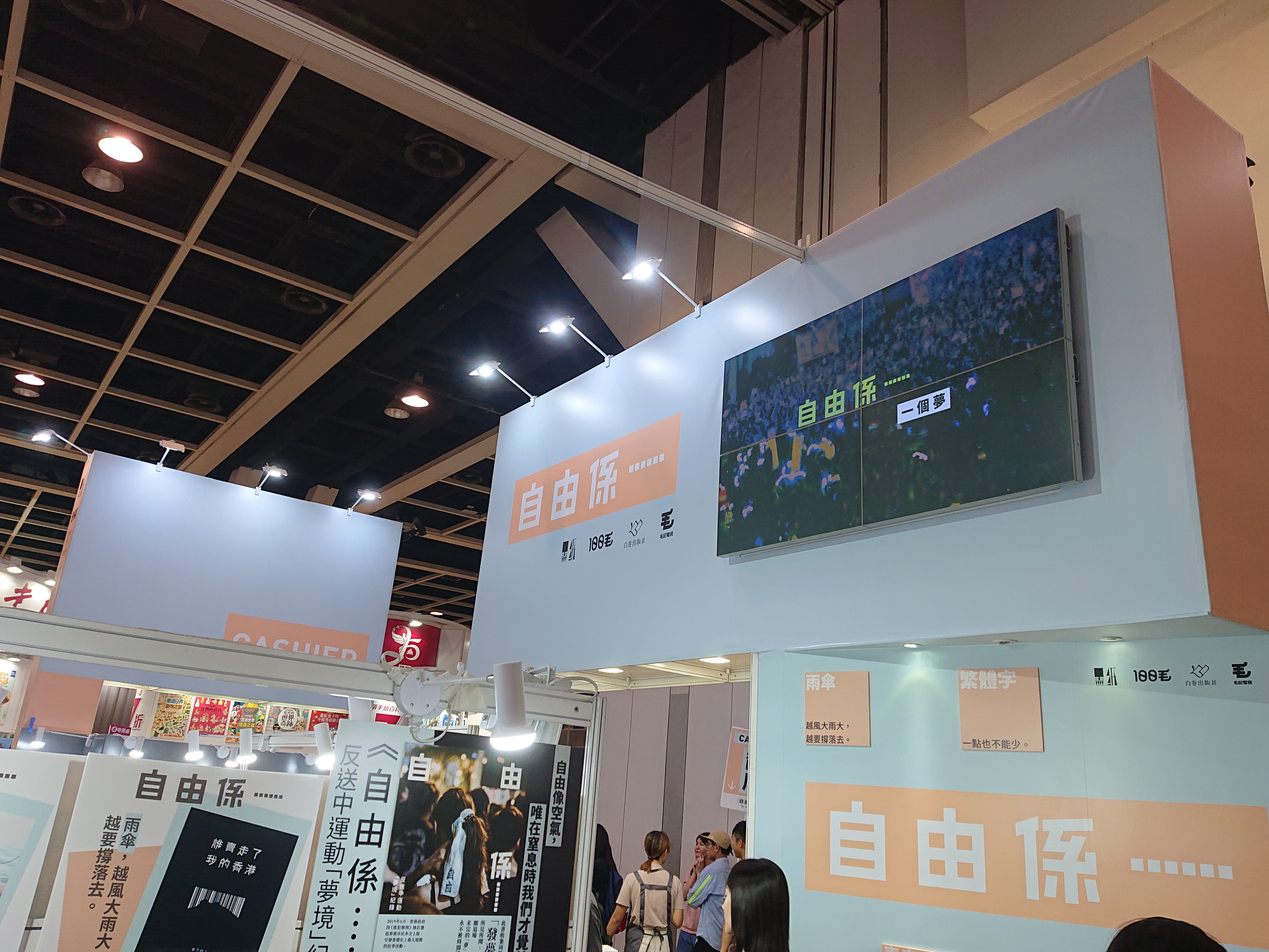 TVMost Booth in Hong Kong Book Fair 2019